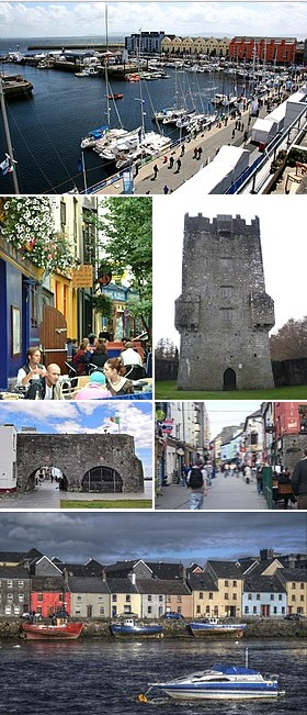 Galway City Collage